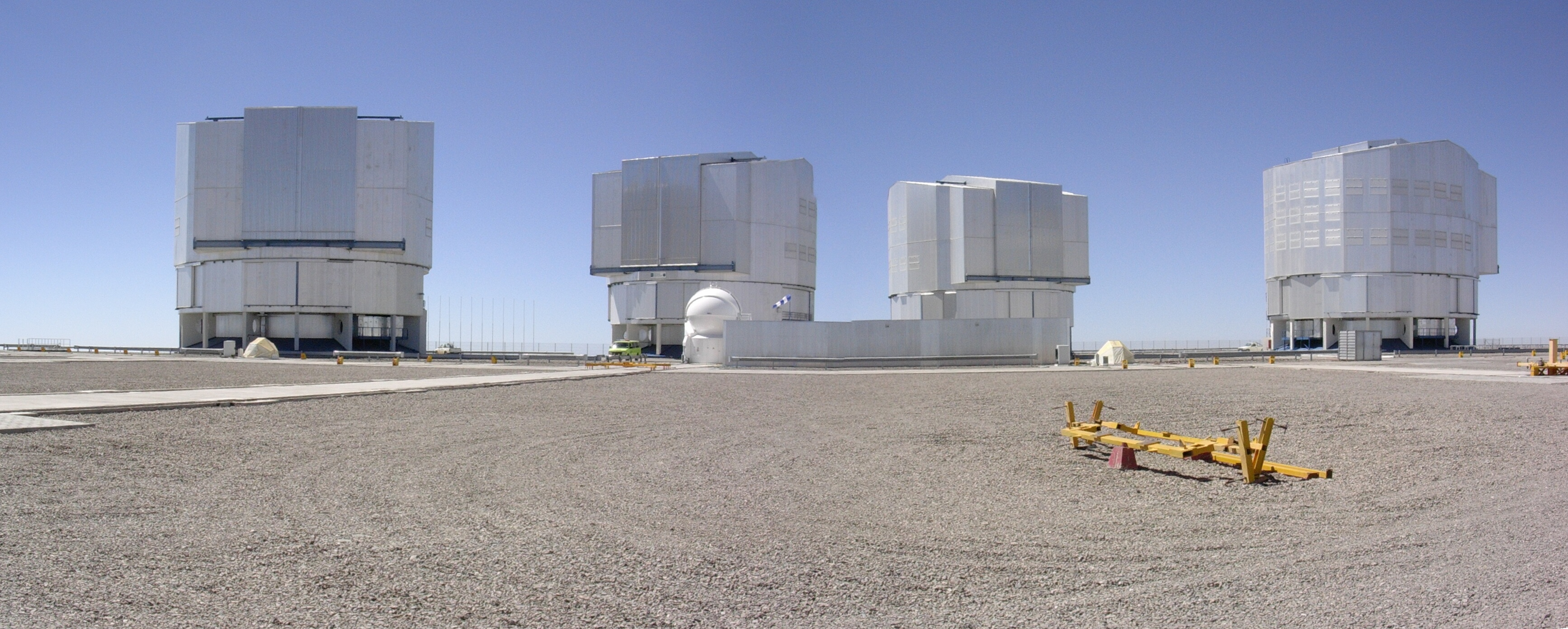 The platform of Mount Paranal, photographed December 25, 2004 Photo taken by F. Millour